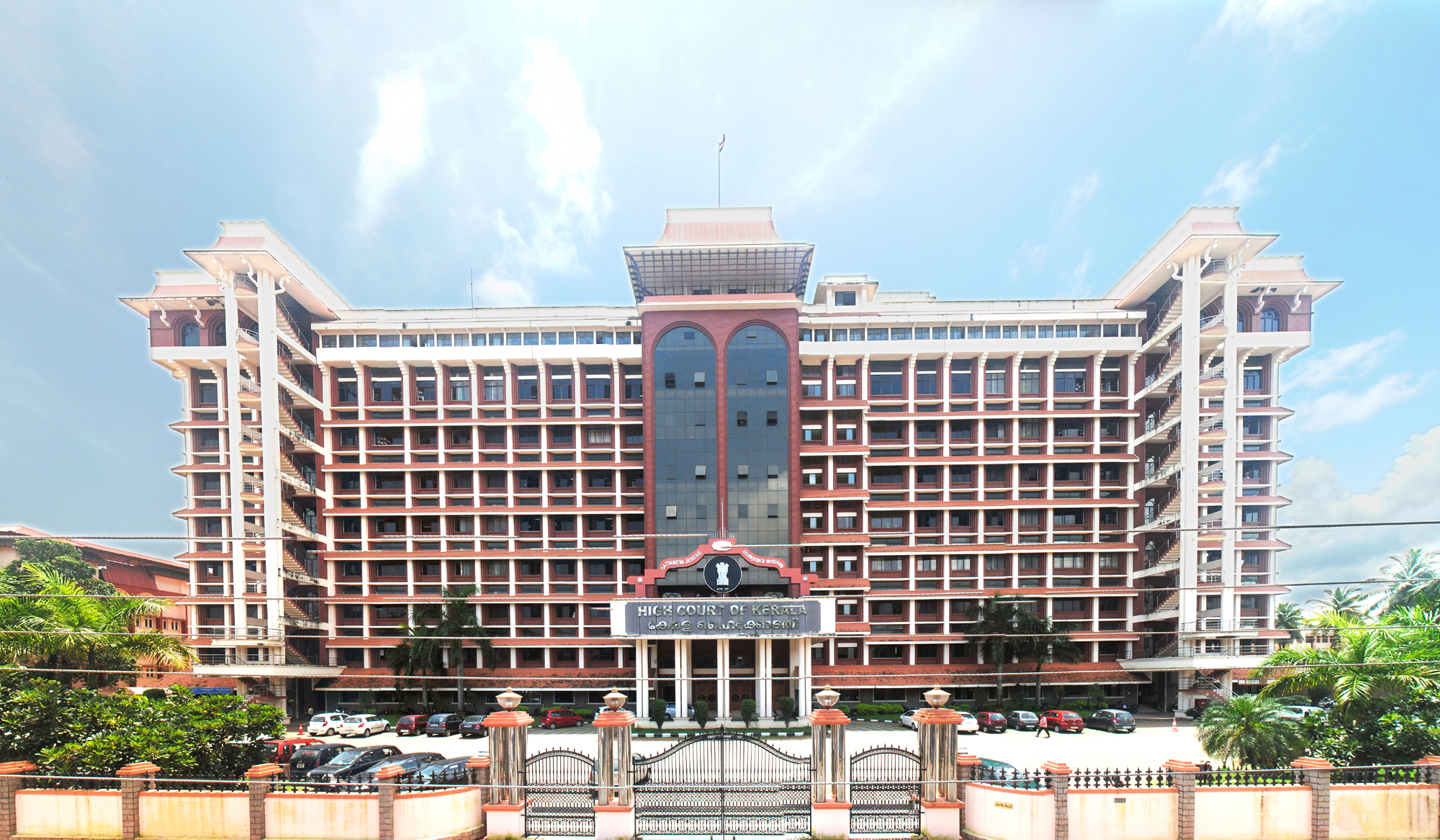 Kerala High Court New Building